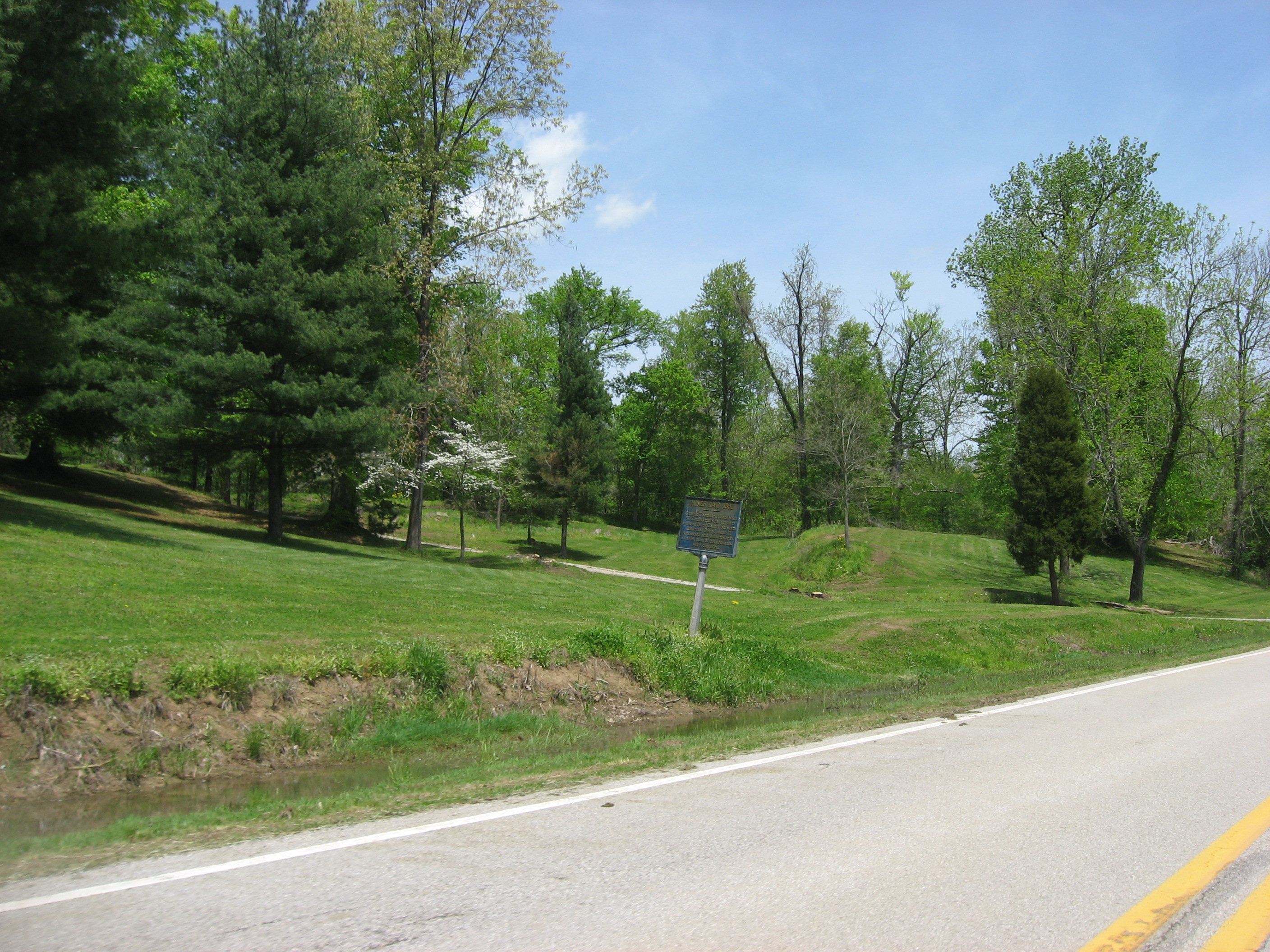 A lawn along State Road 66 immediately north of Poison Creek and just south of Derby in Tobin Township, Perry County, Indiana, United States. The historical marker in the image was placed in 1963 to commemorate Hines' Raid of 1863 (the marker erroneously says "1862"), one of Indiana's few incidents of Civil War combat.